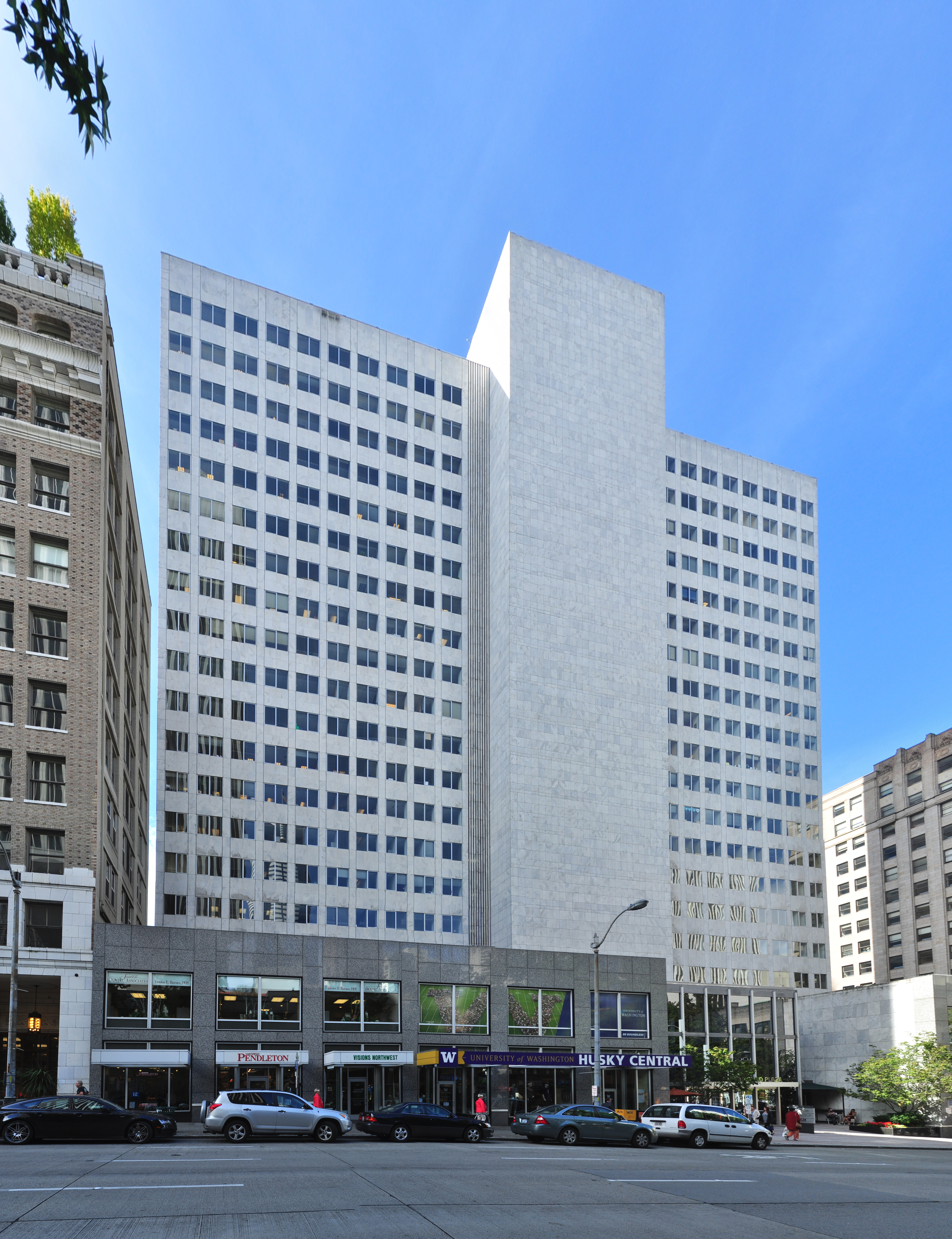 Panoramic view of Puget Sound Plaza, 1325 Fourth Avenue, Seattle, Washington, U.S. This image was created with Hugin